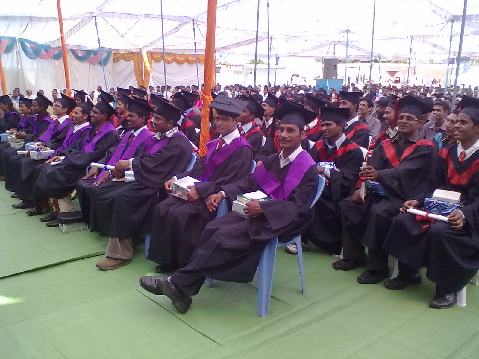 Graduation Ceremony of CITS, 2010.